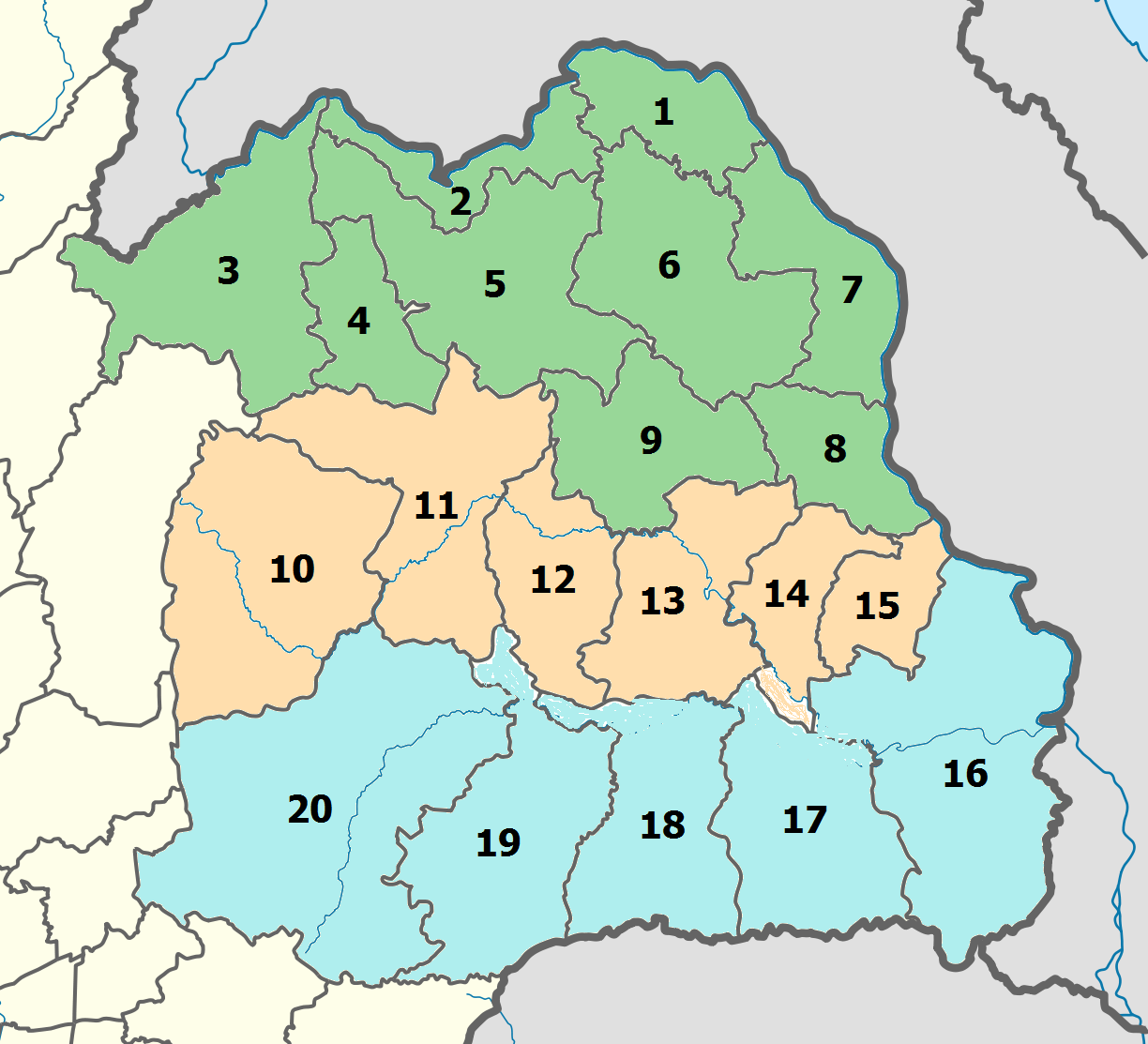 Upper, Middle and Lower provinces of Isan.